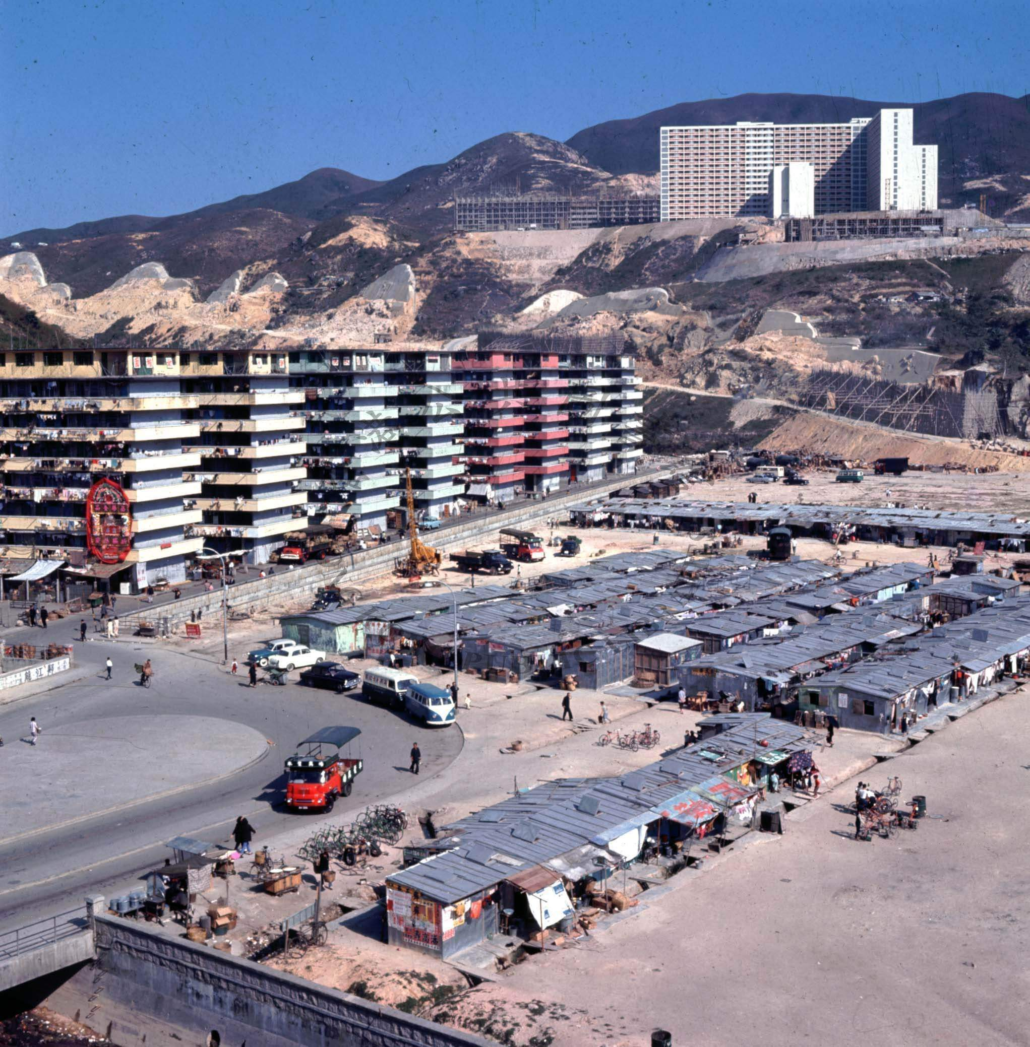 The Kwun Tong Resettlement Area and the squatter area at the front in 1966